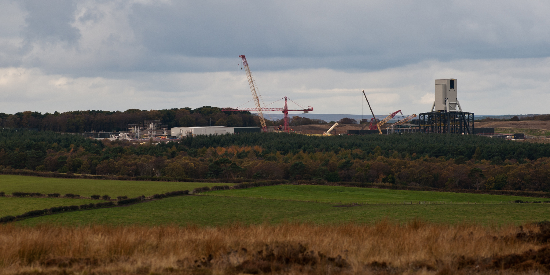 Woodsmith Mine site taken from A171 road. This is looking westwards from the junction with the road to Robin Hood's Bay